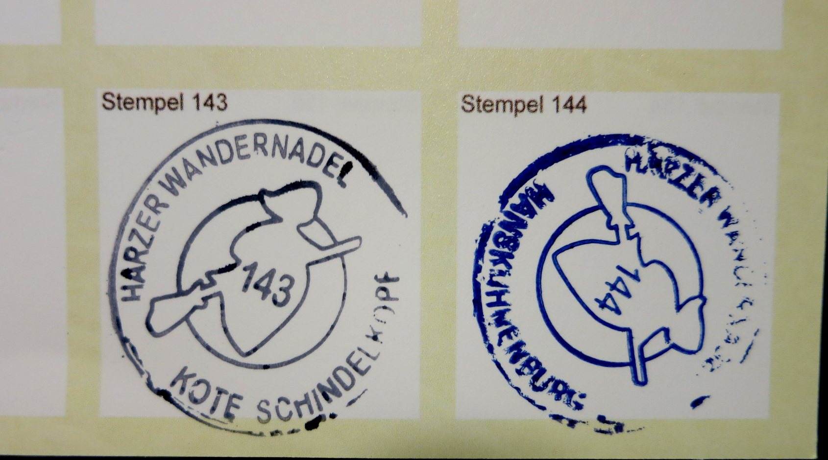 Stamps testifying the visit of two places in Harz mountain, required to receive the "Harzer Wandernadel"